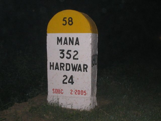 Coordinates of location (Haridwar, Uttaranchal, India): 29° 58' 0 N 78° 10' 0 E (shot on 06-July-2006) This image has been shot personally by me, Gopal Aggarwal In respect to , I allow non-commercial as well as commercial usage, with the attribution to the rightful owner: together with the CC Attribution ShareAlike 2.5